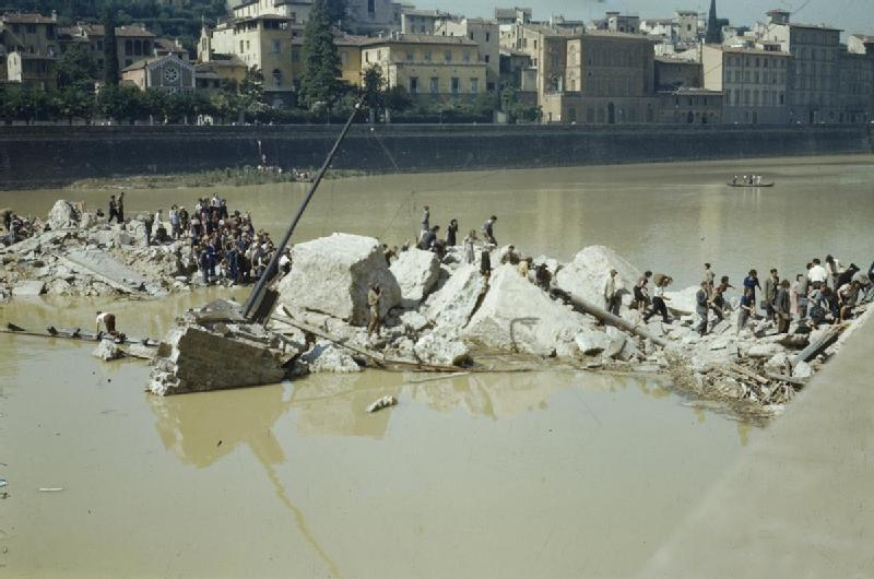 Scenes in Florence, Italy, 14 August 1944 Civilians clambering over the ruins of the Ponte Alle Grazia, one of the bridges over the River Arno destroyed by the Germans before evacuating Florence on 11 August 1944. With the arrival of the British forces, the civilians were returning to the north side of the river.